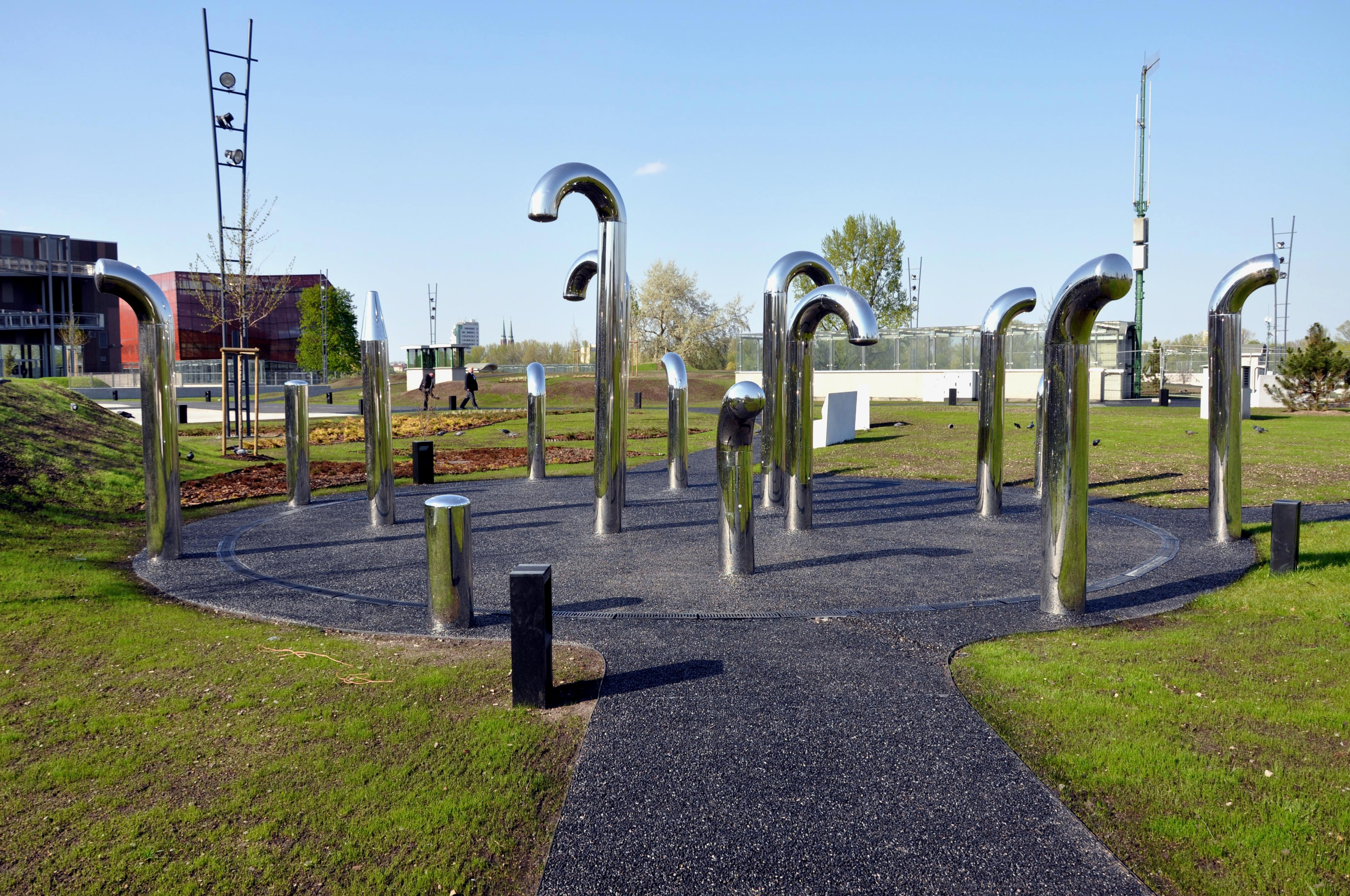 Permanent sond interactive installation "The Whisperers" made by Wela (Elisabeth Wierzbicka) in 2011 for the Copernicus Science Center, Discovery Park in Warsaw.